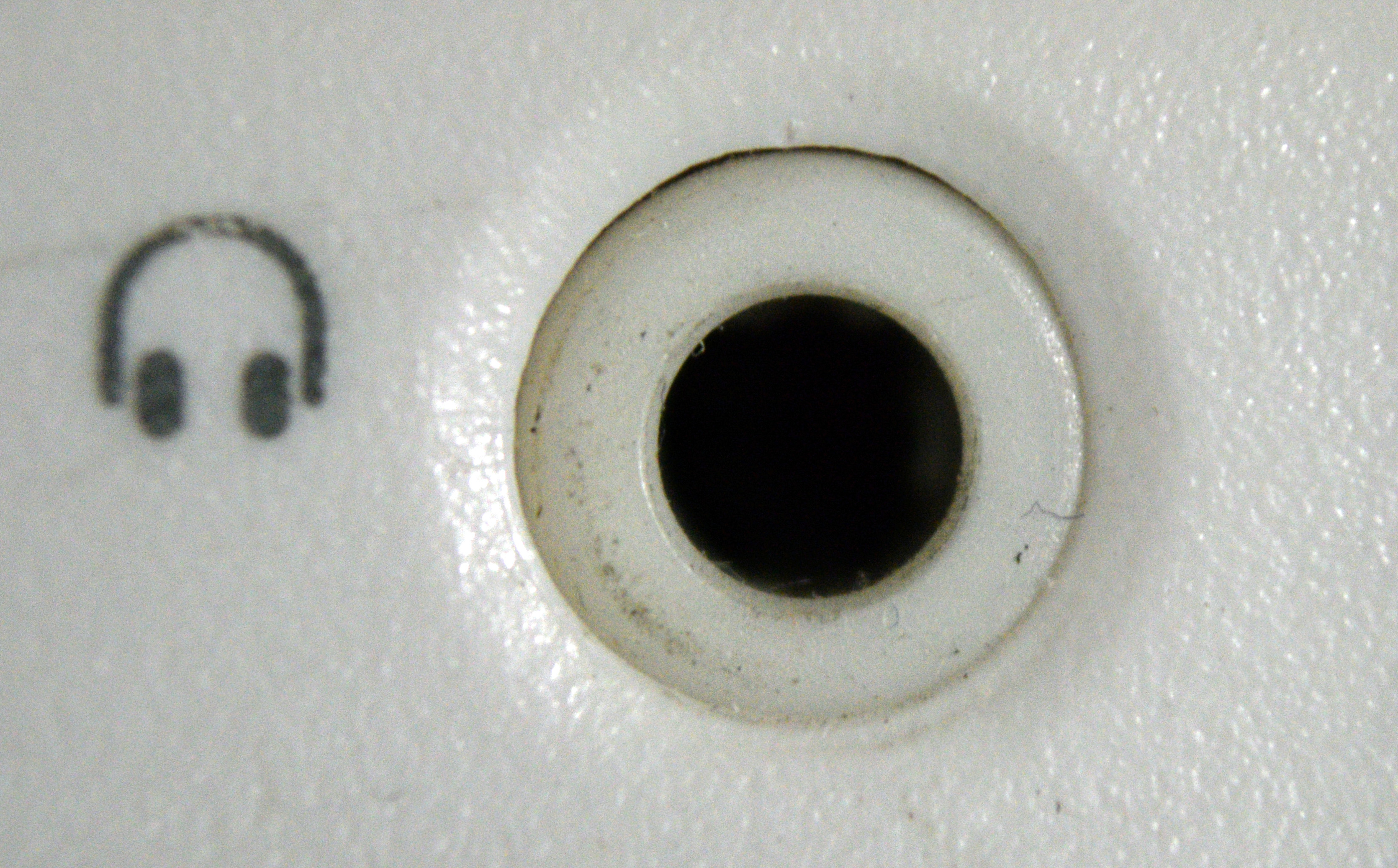 Close-up of a 3.5mm headphone jack on a computer